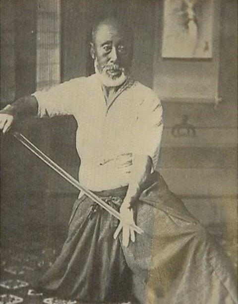 Ōe Masaji, 17th Generation Headmaster of Musō Jikiden Eishin-ryū